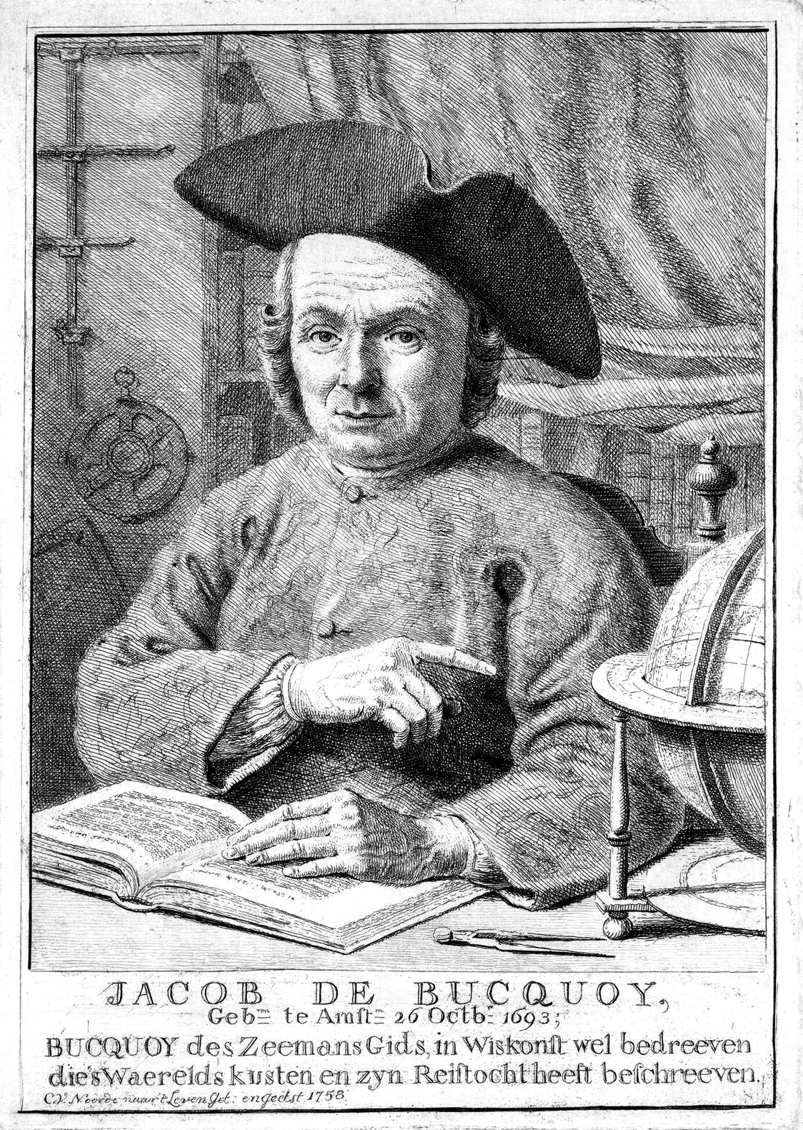 Jacob de Bucquoy etching 15.7 x 12.3 cm 1758 inscribed b.: JACOB DE BUCQUOY, / Geb.ren te Amst.m 26 Octb.r 1693; / BUCQUOY des Zeemans Gids in Wiskonst wel bedreeven / die 's Waerelds kusten en zyn Reistocht heeft beschreeven. / C.V. Noorde naar't Leven Get. en Geetst 1758